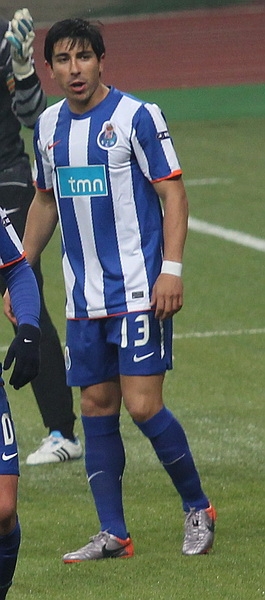 Jorge Fucile